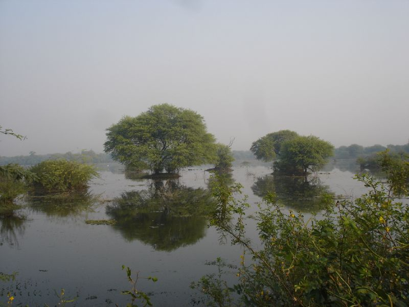 Keoladeo National Park